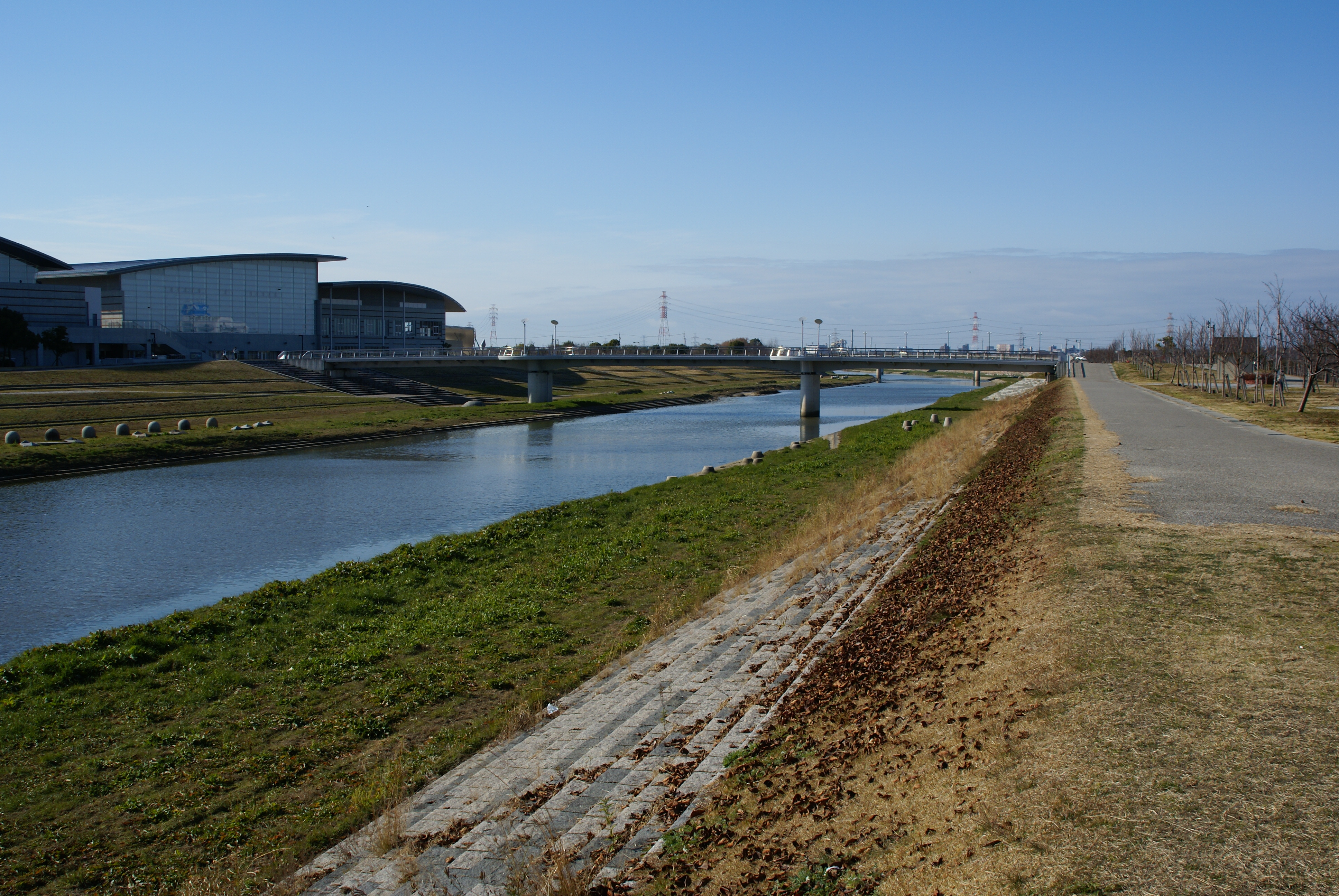 Aizumagawa (Aichi)